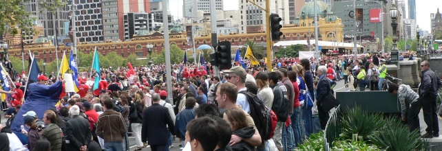 Crowds at Southbank for the AFL Grand Final parade up Swanston Street